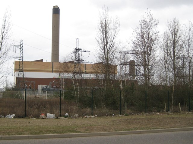 Dartford: Littlebrook Power Station